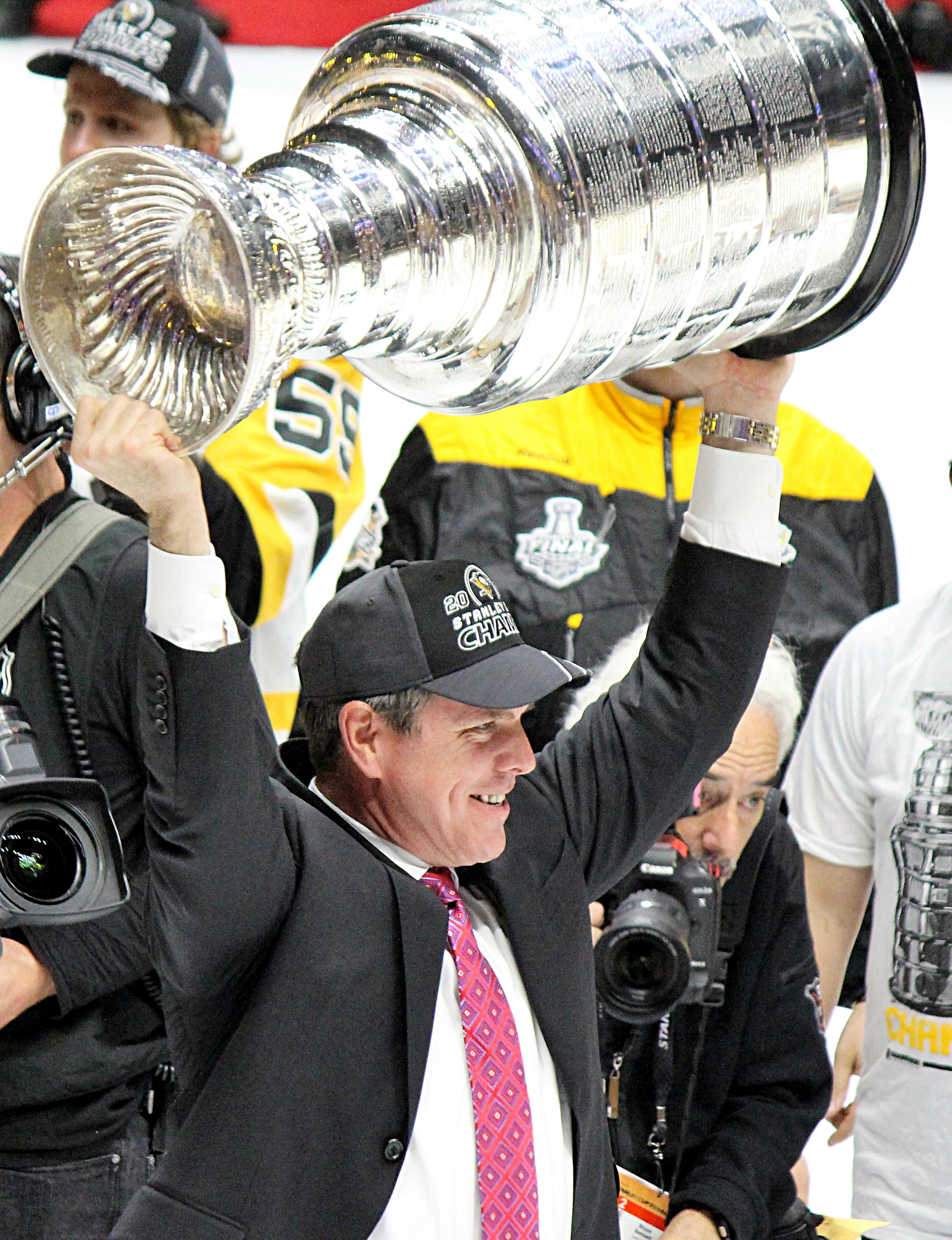 Pittsburgh Penguins head coach Mike Sullivan raises the Stanley Cup, June 11, 2017, at Bridgestone Arena in Nashville, TN.